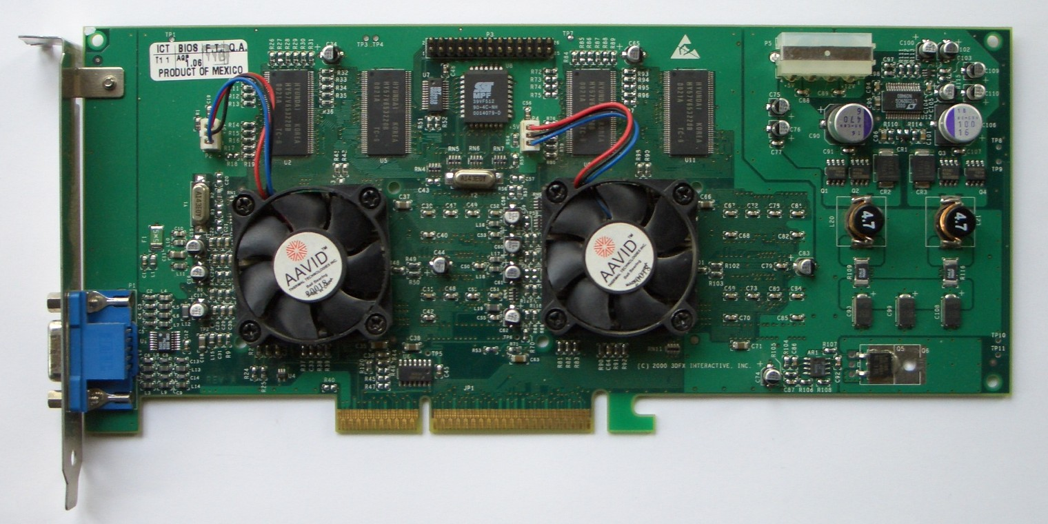 3dfx Voodoo 5500 card Video RAM: 64MB Max 2D resolution: 2048×1536 Year: 2000